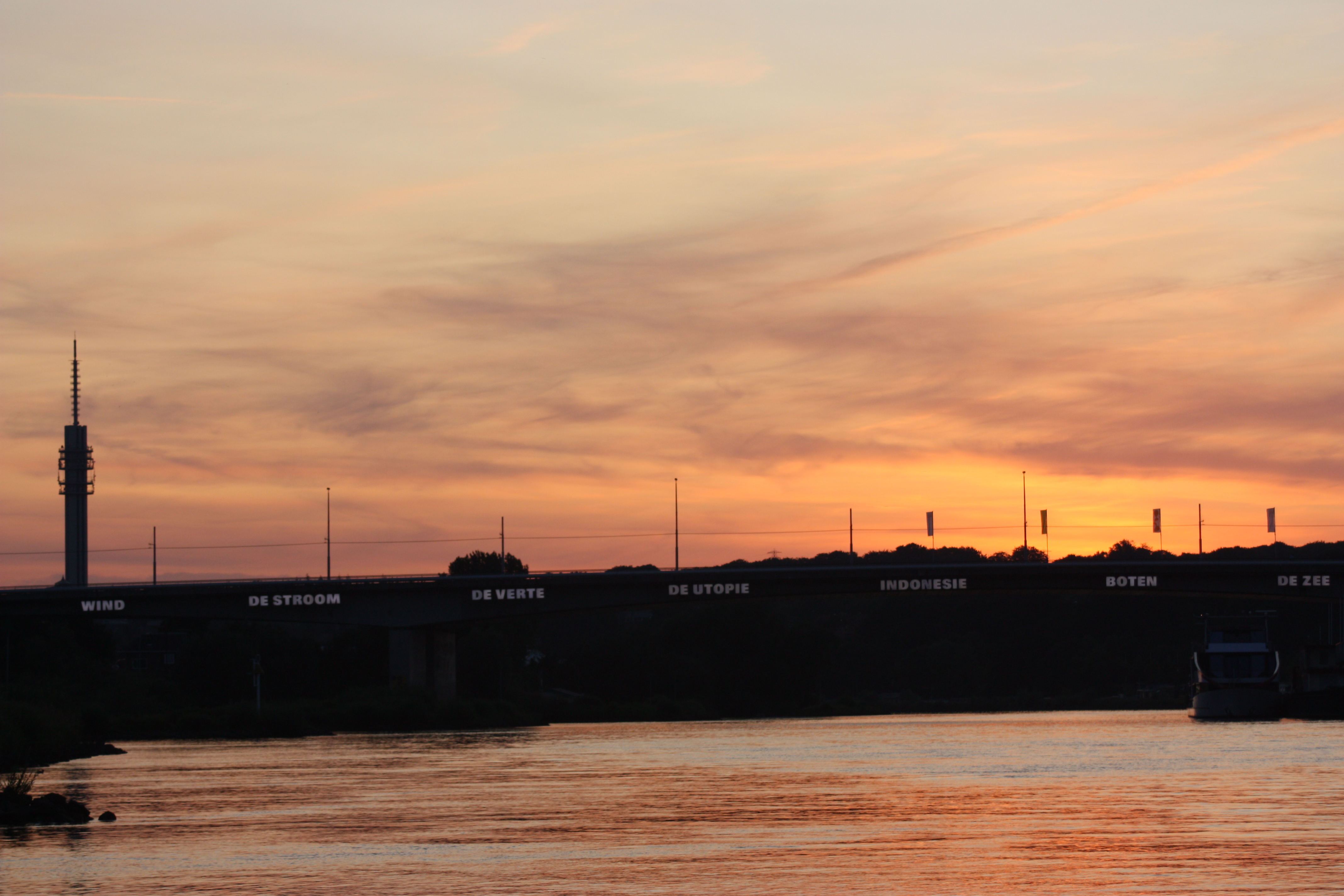 Nelson Mandela Rijn Bridge Arnhem